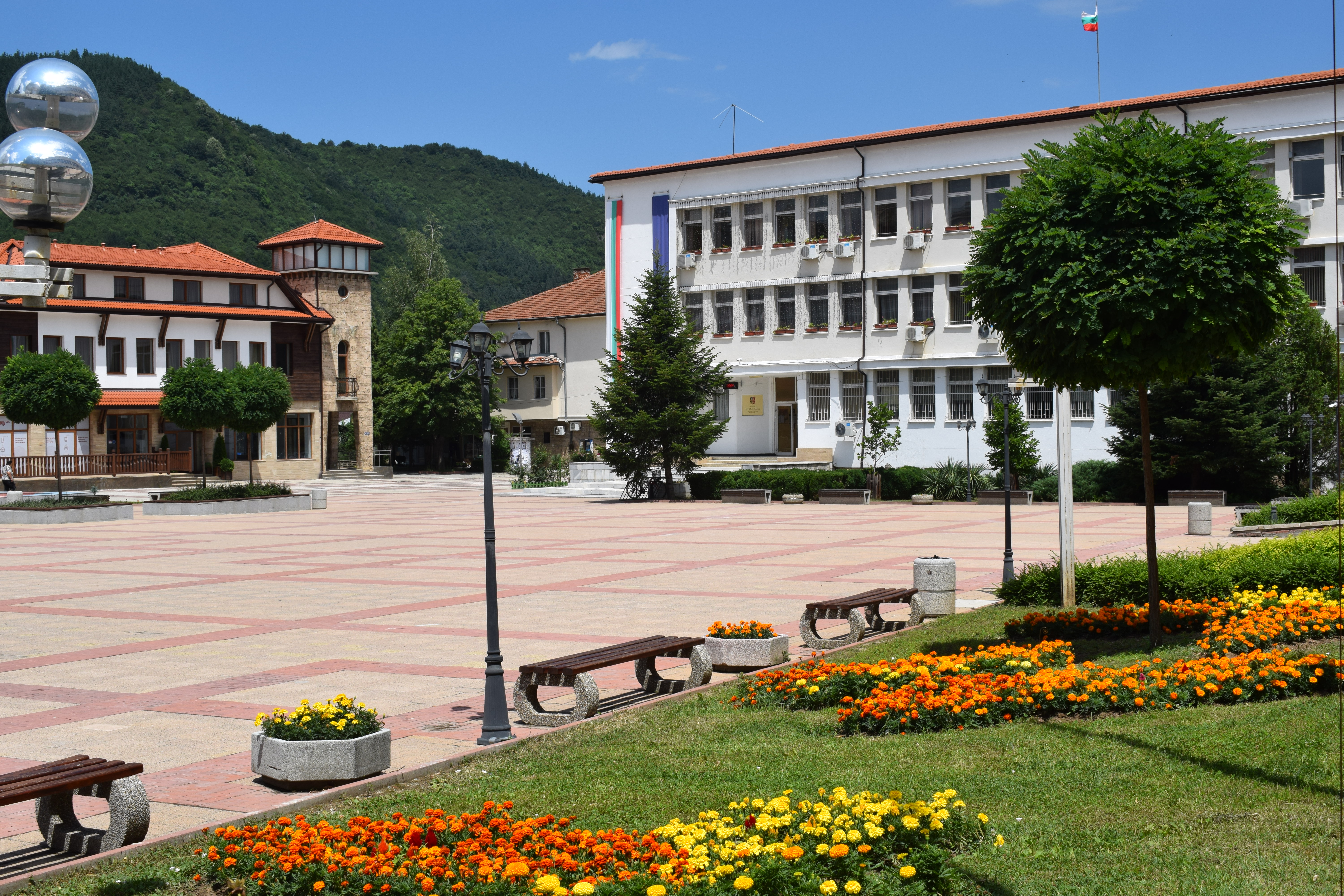 Сградата на Община Етрополе